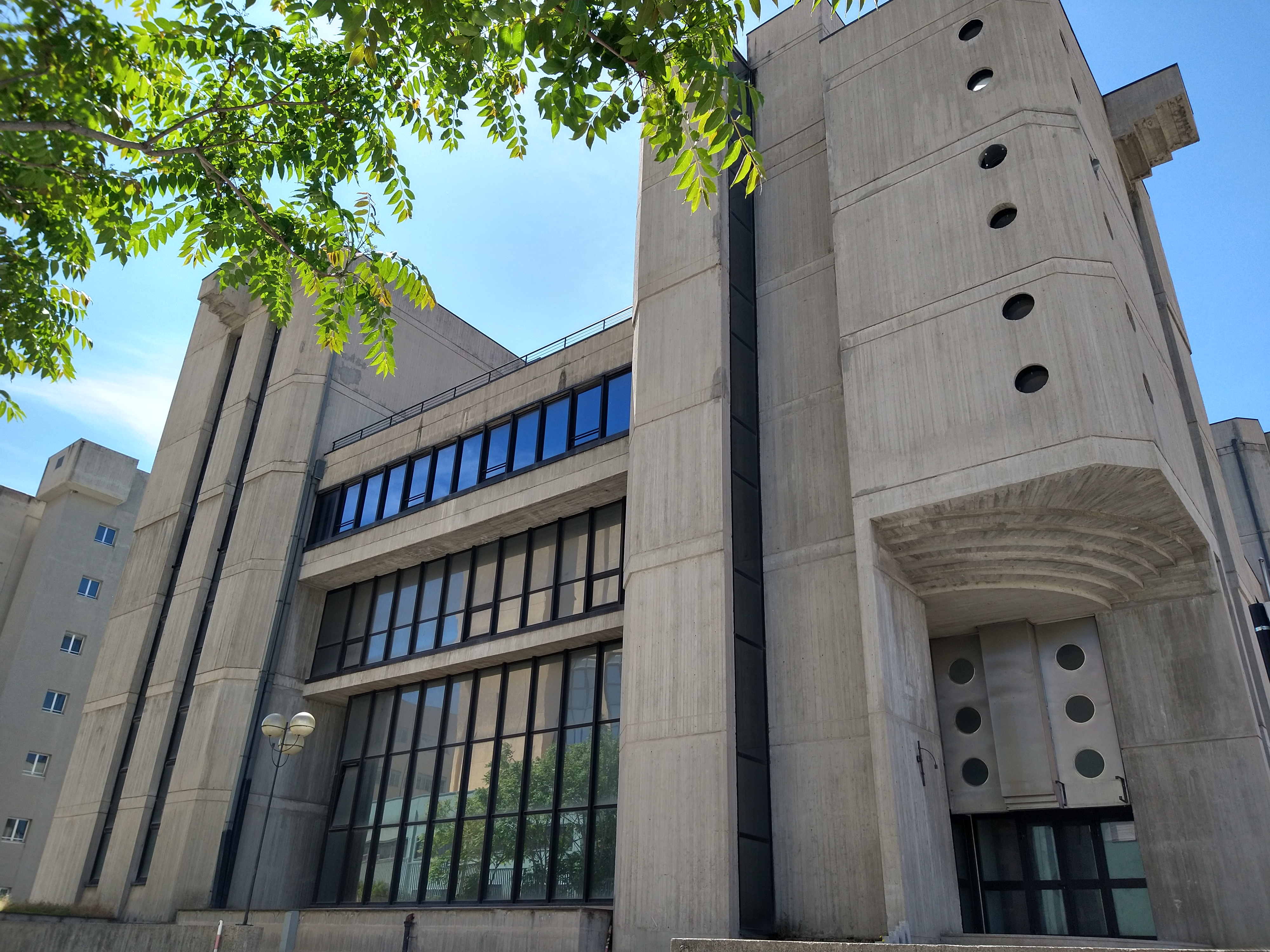 Rear view of the Former Palace of Banca Popolare di Pescopagano in Potenza, Italy